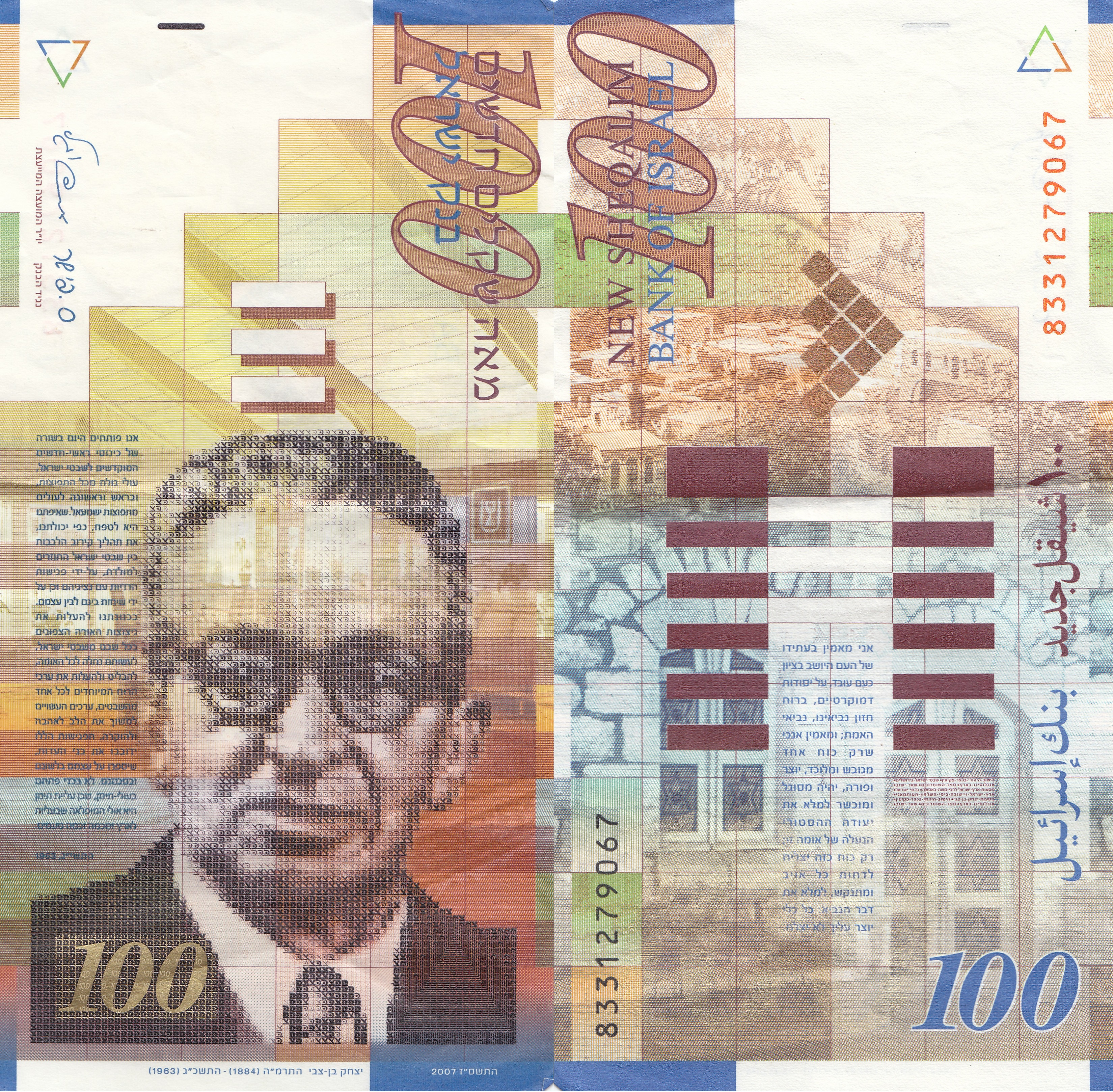 This is a higher resolution scan of the 100 NIS bill.